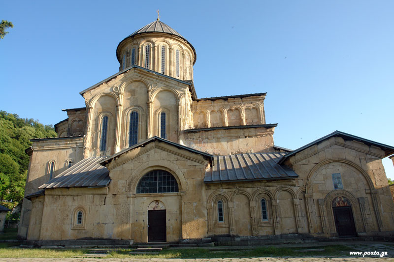 Gelati Monastery The Monastery of the Virgin - Gelati near Kutaisi (Imereti region of Western Georgia) was founded by the King of Georgia David the Builder (1089-1125) in 1106. The Gelati Monastery for a long time was one of the main cultural and intellectual centers in Georgia. It had an Academy which employed some of the most celebrated Georgian scientists, theologians and philosophers, many of whom had previously been active at various orthodox monasteries abroad or at the Mangan Academy in Constantinople. Among the scientists were such celebrated scholars as Ioane Petritsi and Arsen Ikaltoeli. Due to the extensive work carried out by the Gelati Academy, people of the time called it "a new Hellas" and "a second Athos". The Gelati Monastery has preserved a great number of murals and manuscripts dating back to the 12th-17th centuries. In Gelati is buried one of the greatest Georgian kings, David the Builder (Davit Agmashenebeli in Georgian).